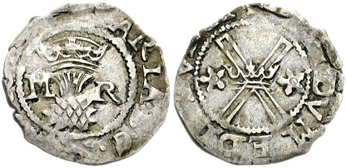 Scotland. Mary, Queen of Scots. 1542-1567. BI Bawbee (21mm, 2.35 g, 12h). First issue, struck circa 1542-1558. +MARIA D G REGINA SCOTORV, crowned thistle flanked by M R (lis)OPPIDVM EDINBVRGI, saltire cross with crown and cinquefoils. SCBC 5432. Fine. From the Dr. Thomas Dailey Collection.